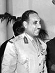 Abd as-Salam Arif (1921-1966), President of Iraq 1963-1966